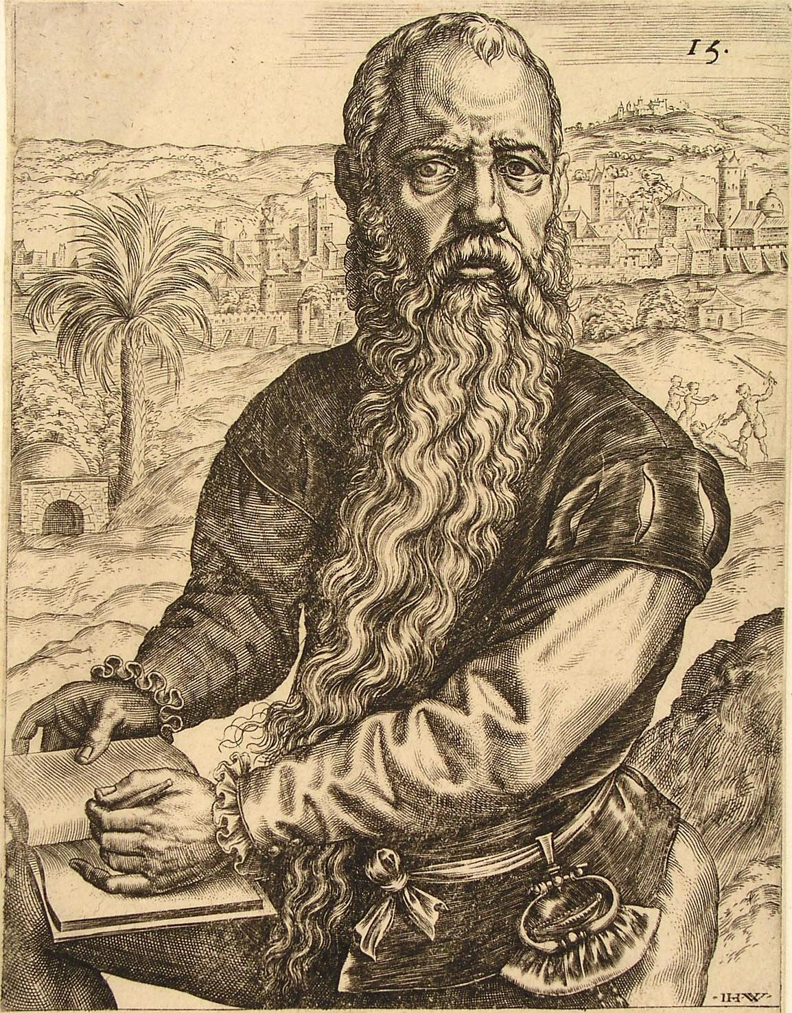 Portrait of Jan Cornelisz. Vermeyen.